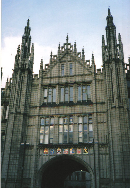 Marischal college, Aberdeen The college has the second largest frontage in the world after Escorial in Madrid. It was founded in 1593 by George Keith, 5th Earl Marischal of Scotland. It now looks set to become Aberdeens new Town House.